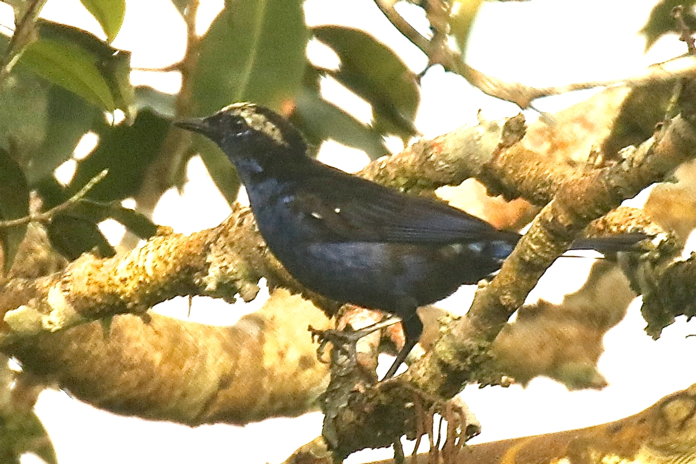 Sacha Lodge - Ecuador